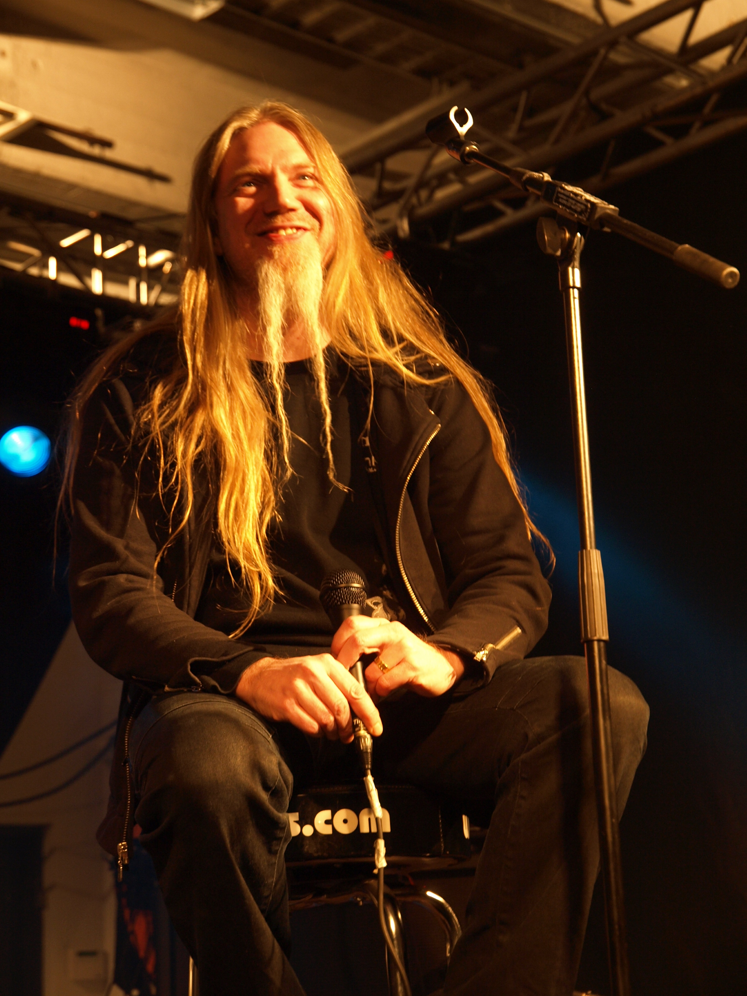 Marco Hietala during an interview at Helsinki Metal Meeting 2010